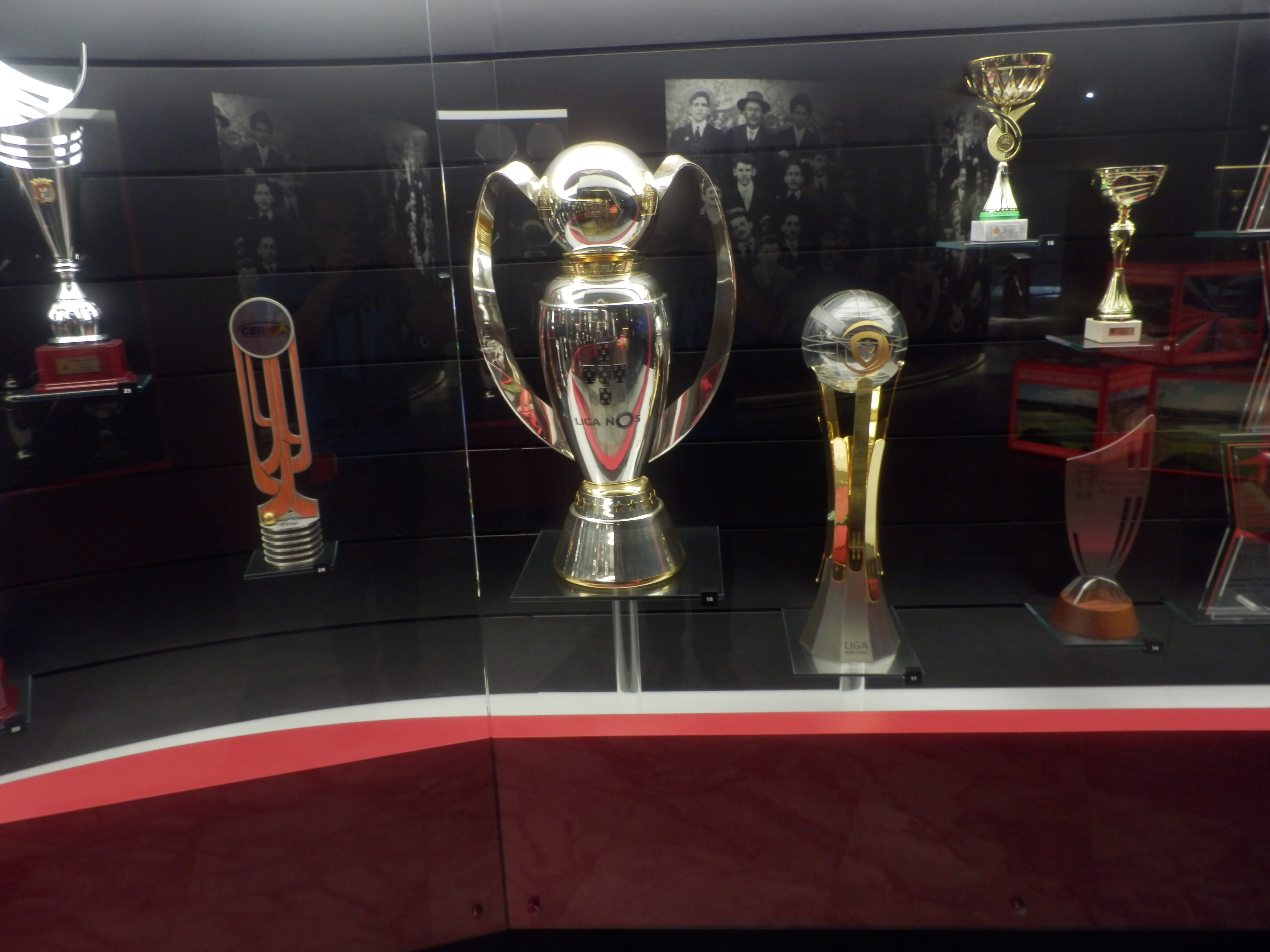 The titles won in 2014-15, the league title is the larger, the other is the league cup. 2014 Supercup is not here